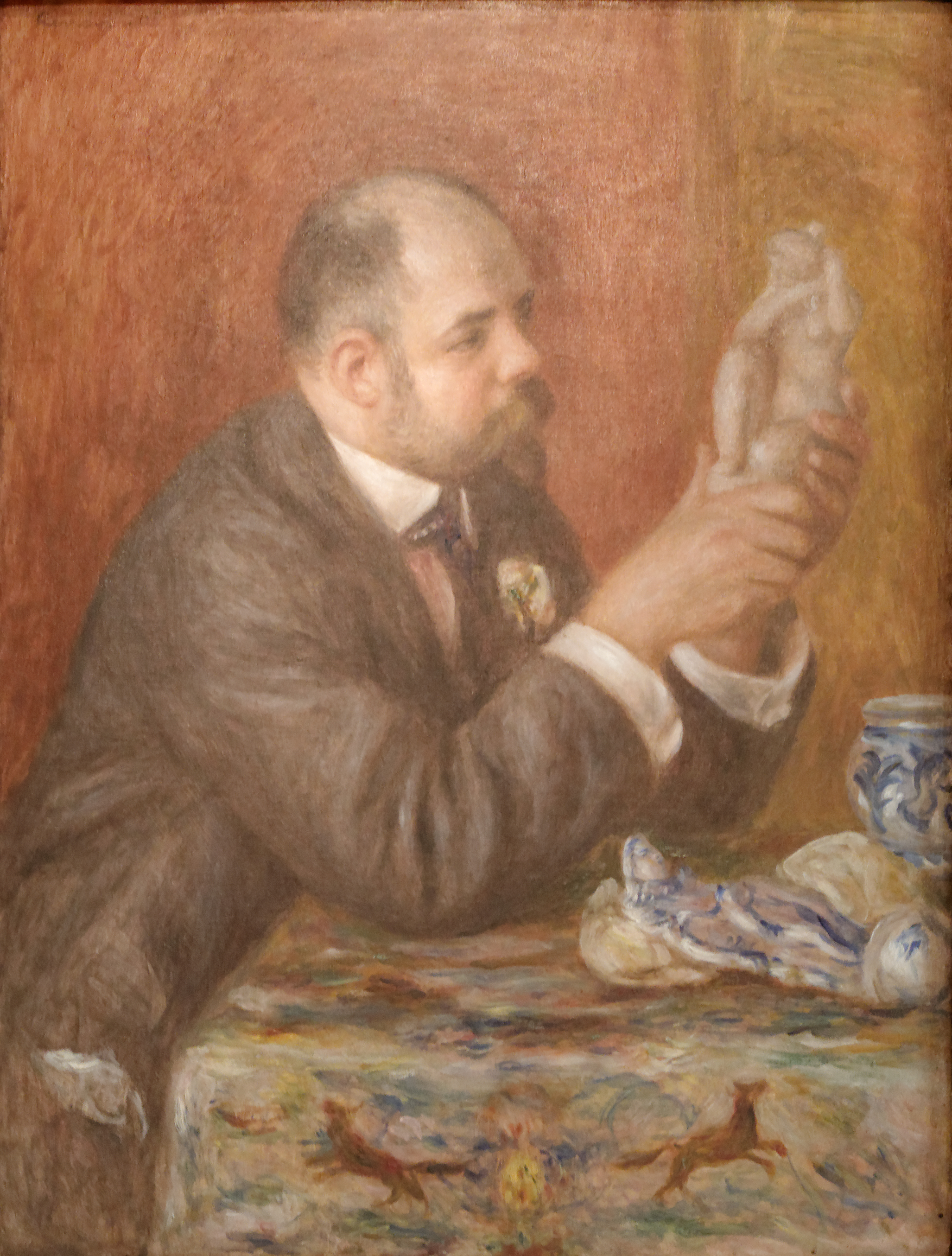 Renoir depicts Ambroise Vollard as a connoisseur, examining a statuette of a kneeling female nude from Aristide Maillol. The theme echoes portraits of a collector from the Italien Renaissance. Vollard's features are somewhat idealised: he was a big, heavy man mocked for his bald head and bulbous nose.